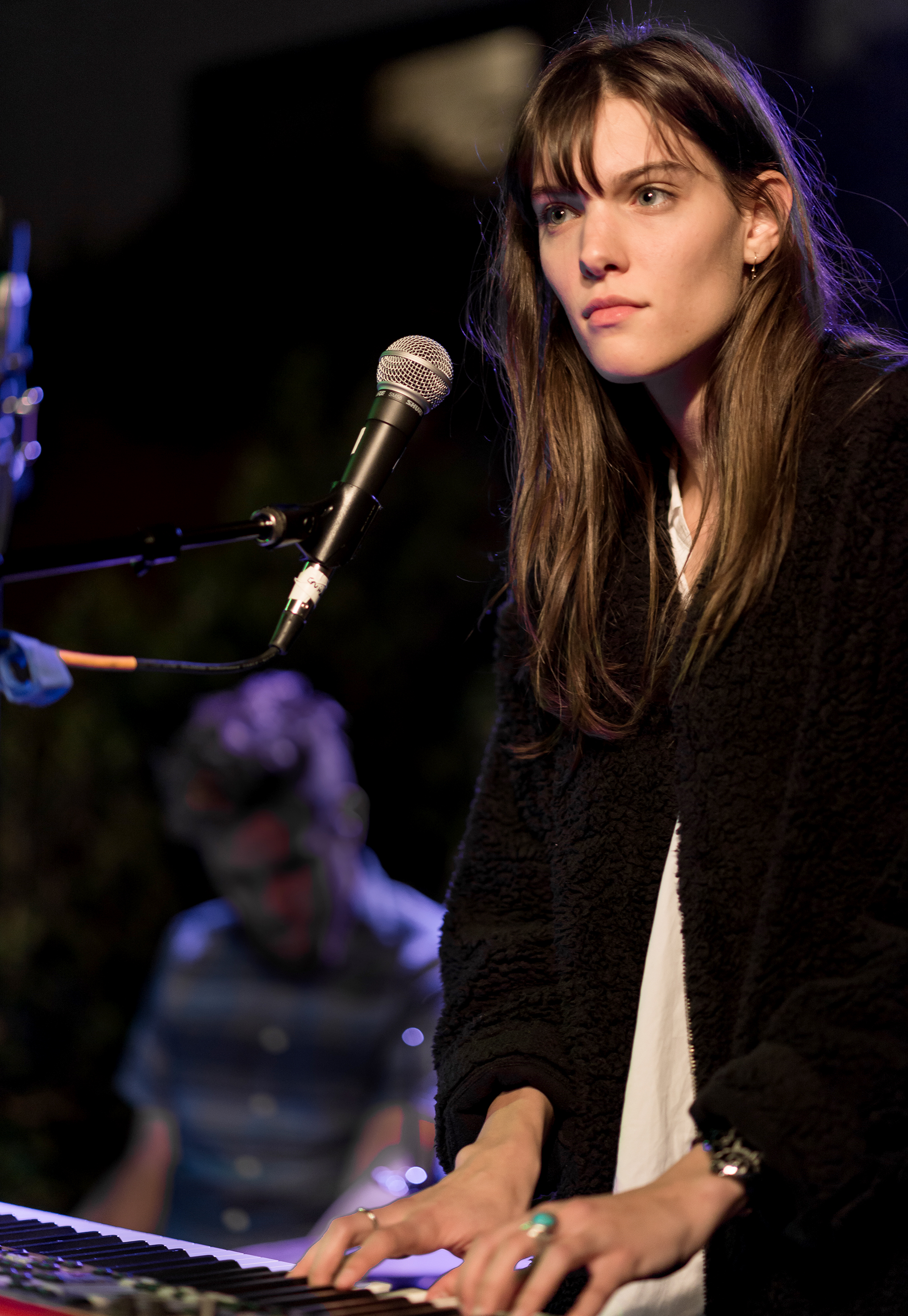 Charlotte Cardin performing live at Baño Flaco at the Hollywood Roosevelt Hotel on Wednesday, October 18, 2017, presented by Ones To Watch.